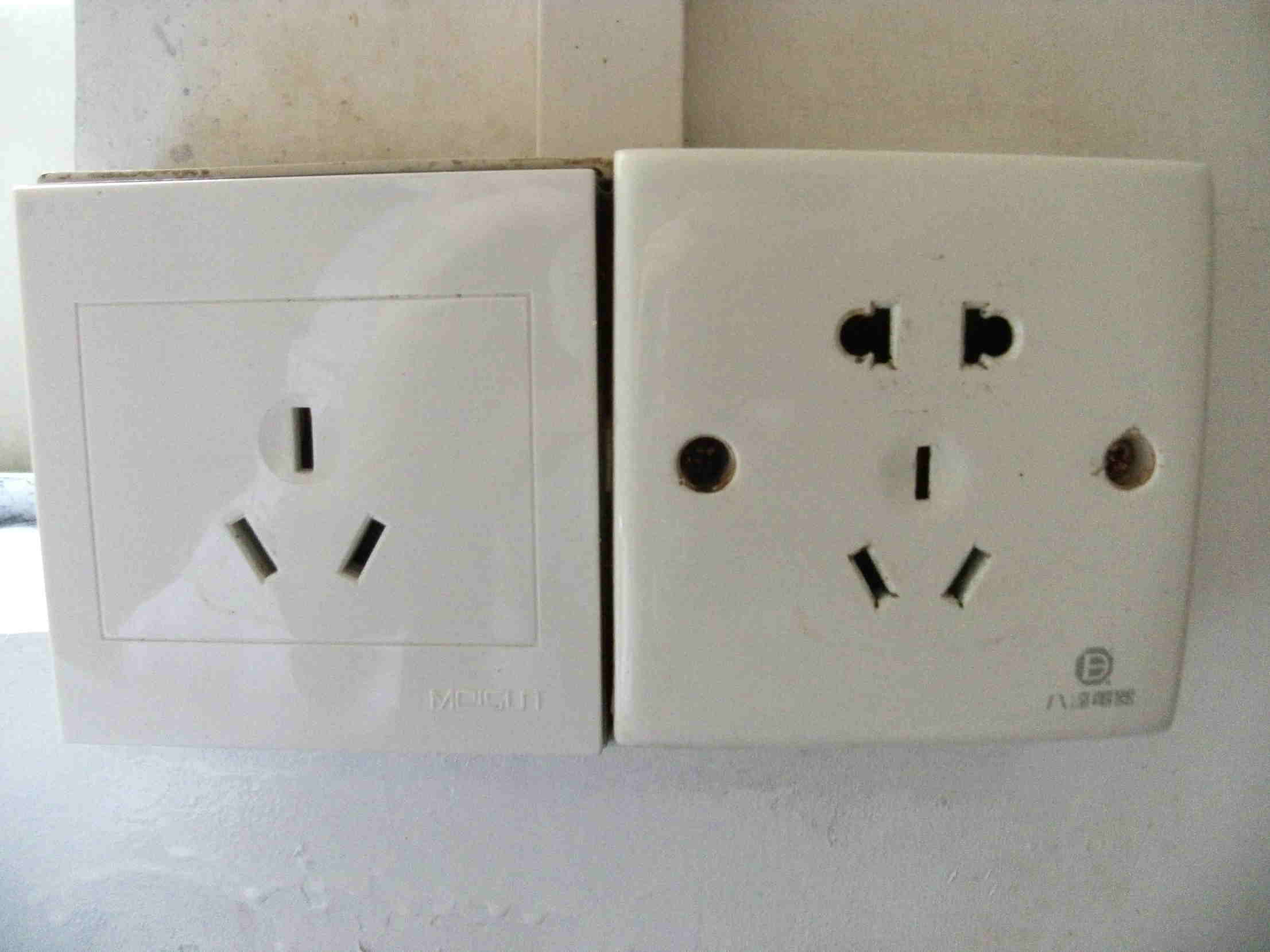 Photo showing 3-pin sockets in China